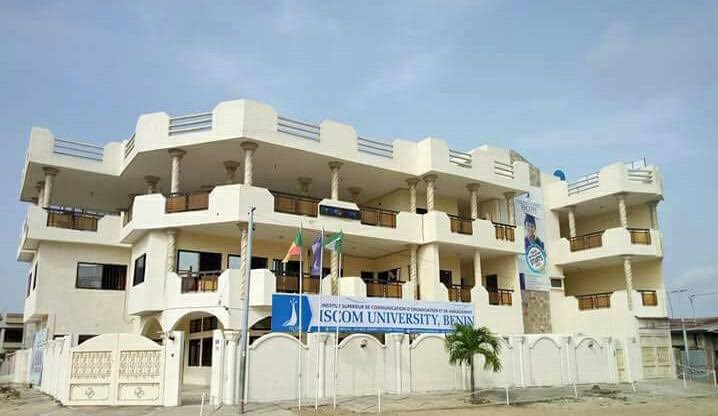 A building of Iscom University in Benin Republic